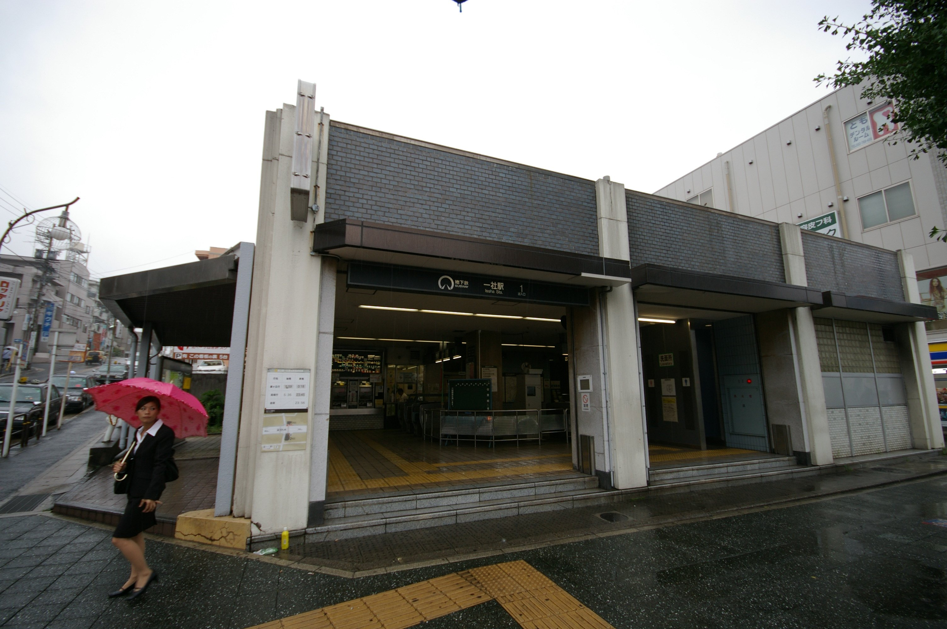 Nagoya Issha Subway Station